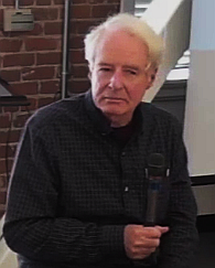 Adam Hochschild speaking with the Wikimedia Foundation in 2017